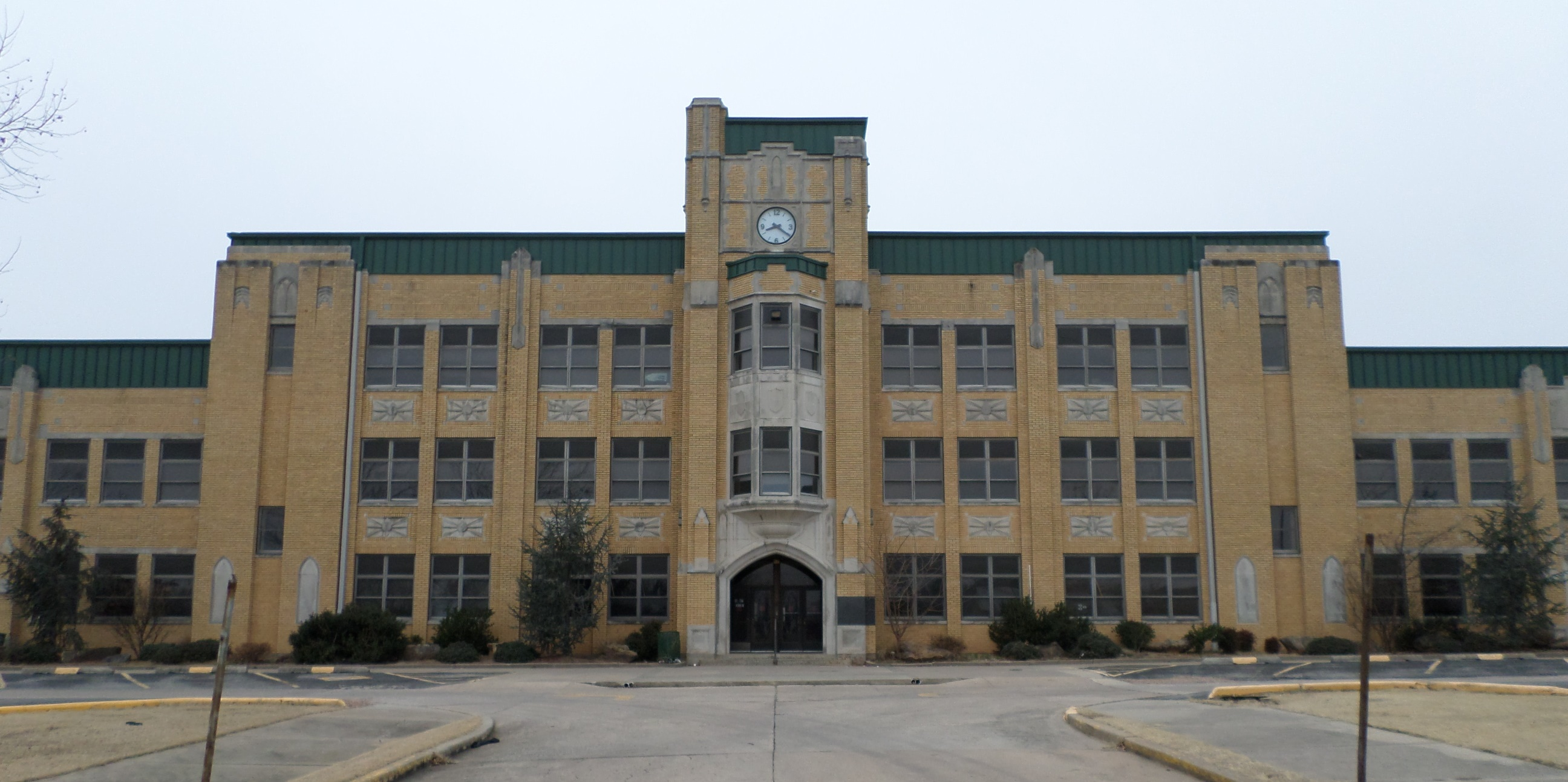 Seminole High School, located at 501 N. Timmons St., Seminole, Oklahoma. As of 2017, the building is no longer in use.